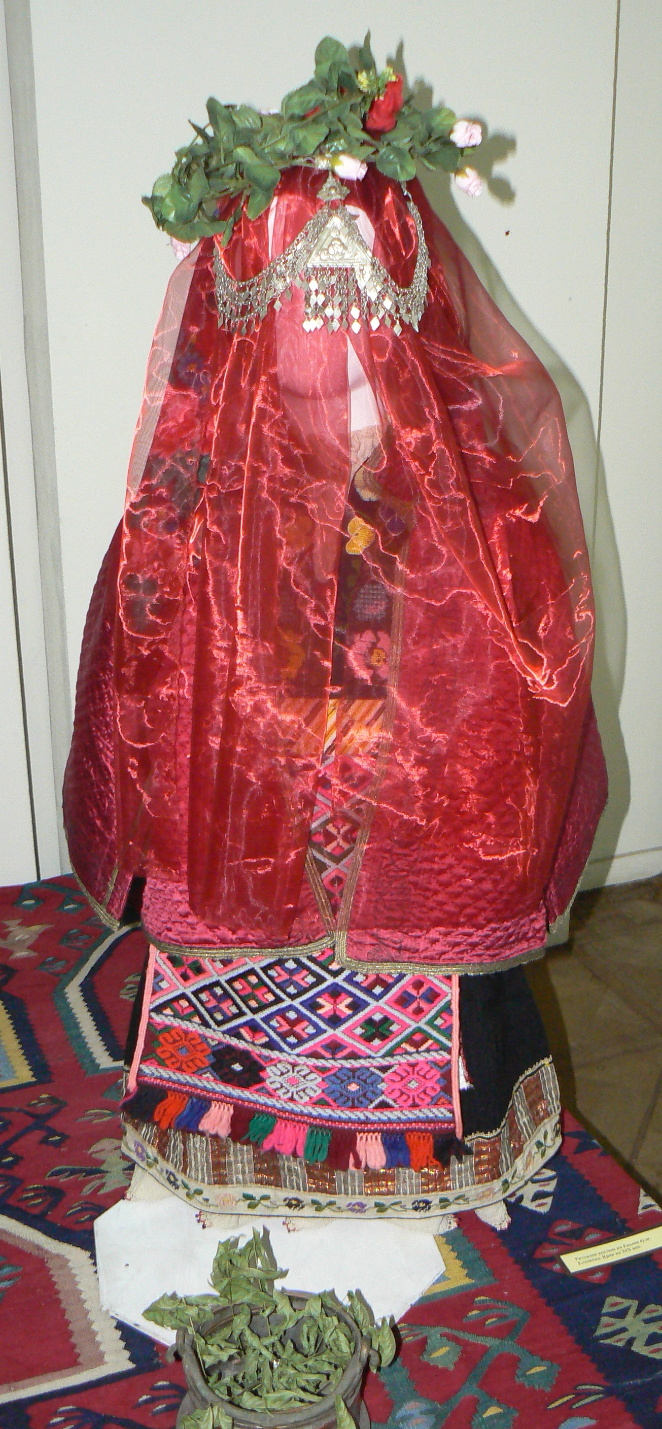 Costume of "Enyova bulya", end of 19th century, Elhovo region. Exhibit of the National ethnographic museum of Bulgaria